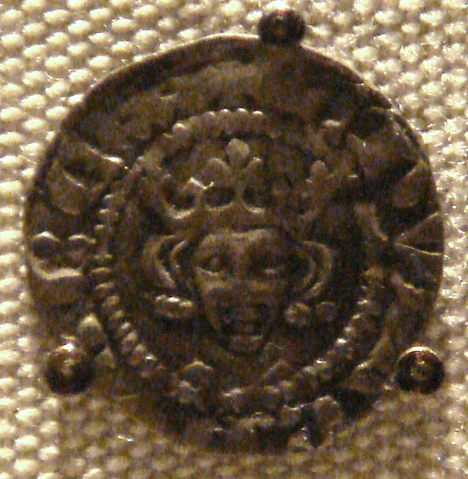 Edward_I_farthing_(quarter_of_a_penny)